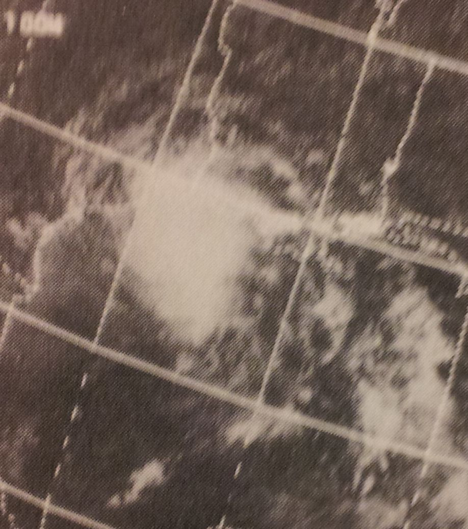 This image of Tropical Storm Felice was taken by the ITOS-1 weather satellite on September 15, 1970 at 2043 UTC.